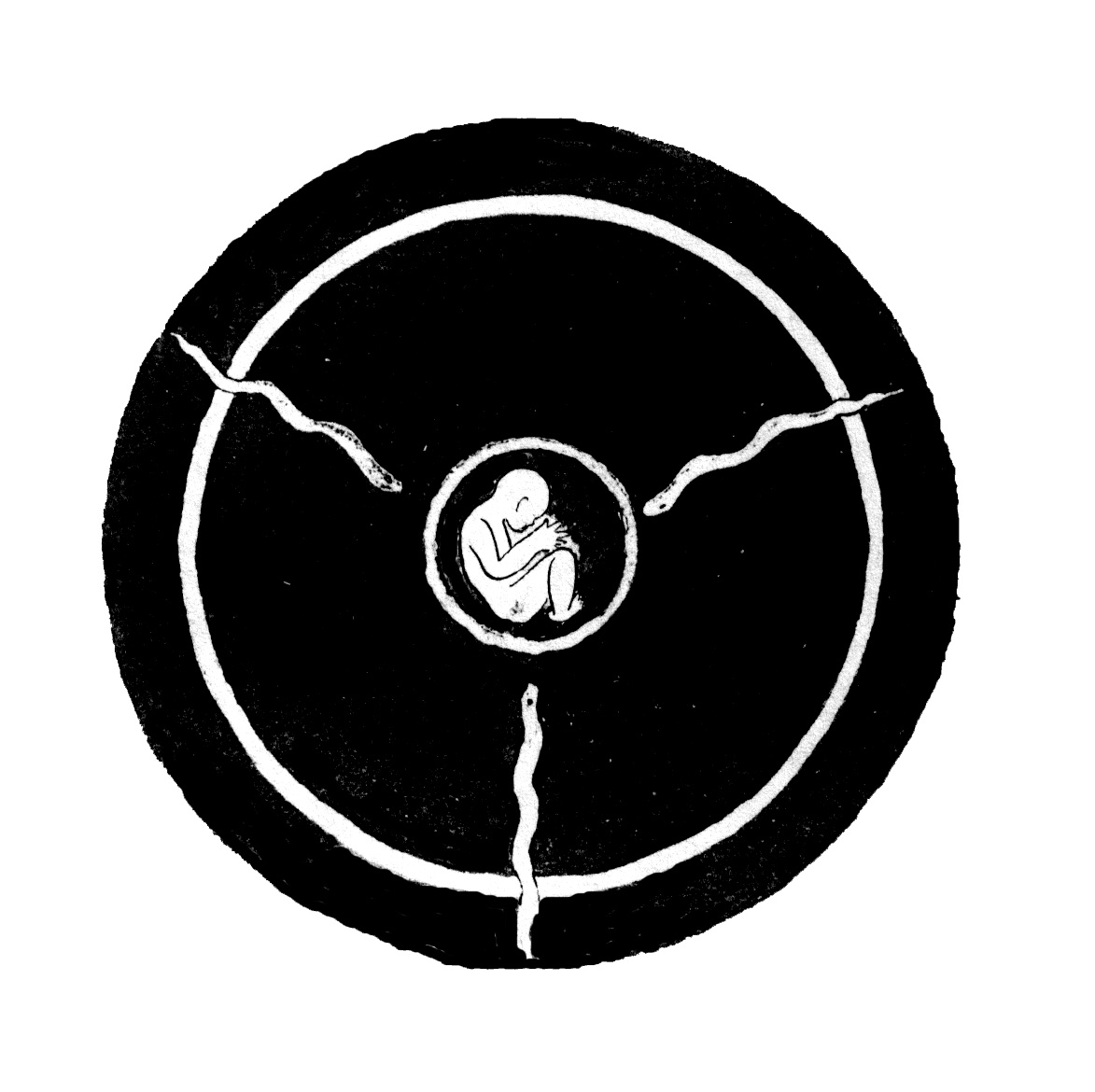 I chose this image as the logo for my project because it is very striking and simple, like many brand images today. There is a fetal man in the center and three snakes all encircled by three circles. It is a primitive image, drawn from very fundamental shapes and ideas. I've yet to figure out what it means. Maybe you can comment here about it. Or visit these sites to see more of the project.